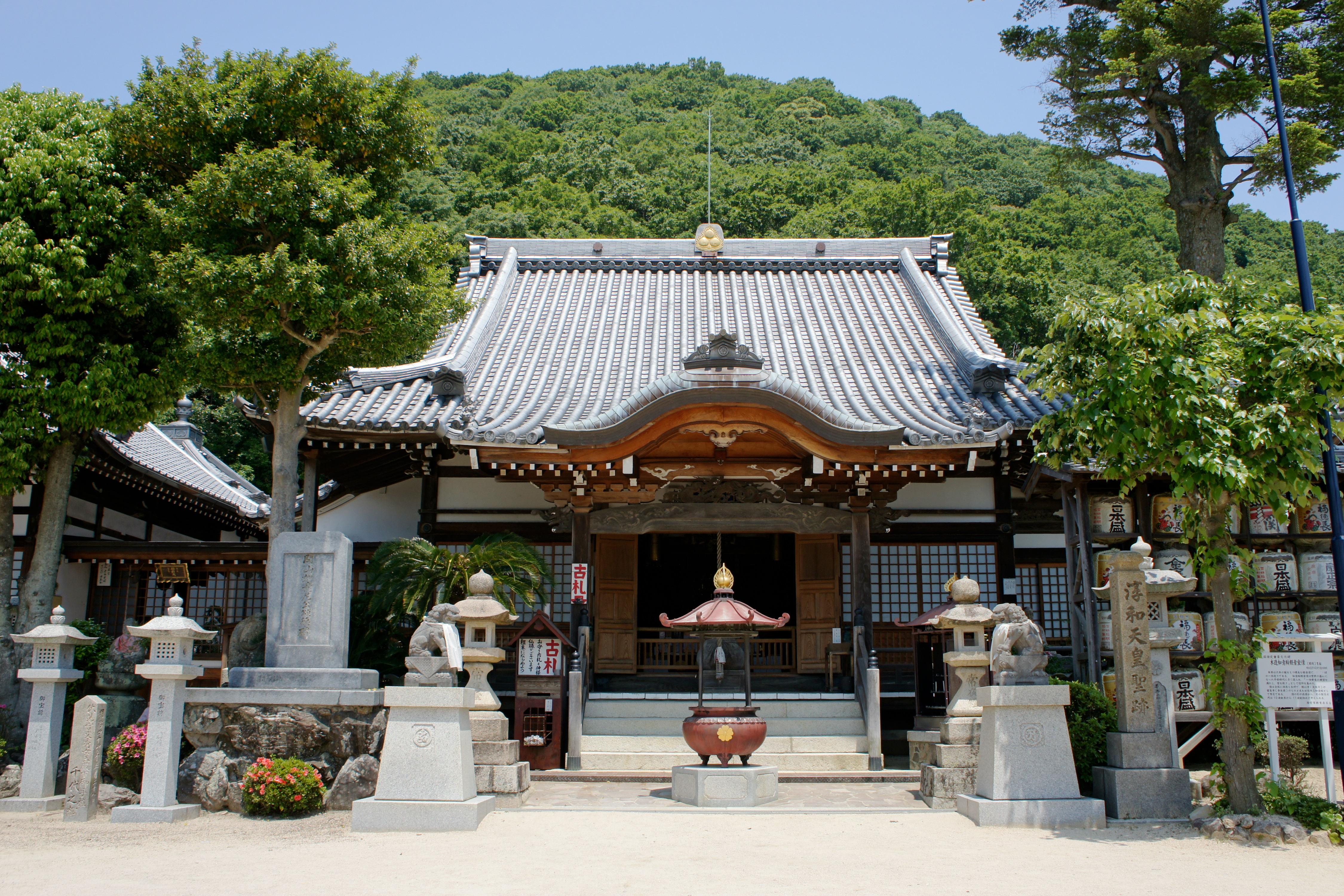 Kannō-ji in Nishinomiya, Hyogo prefecture, Japan